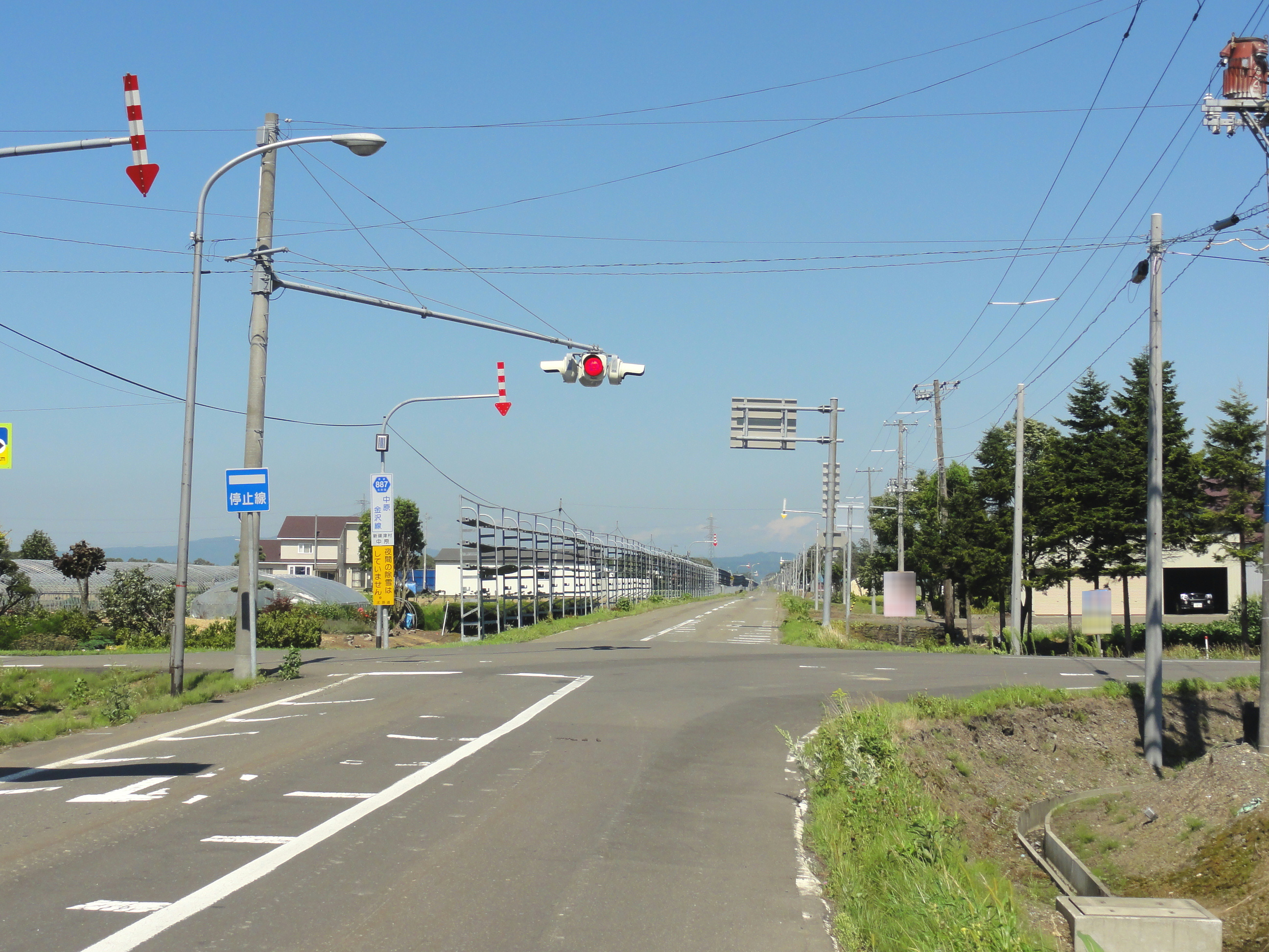 Hokkaido Pref Route 887 (Shinshinotsu, Hokkaidō)